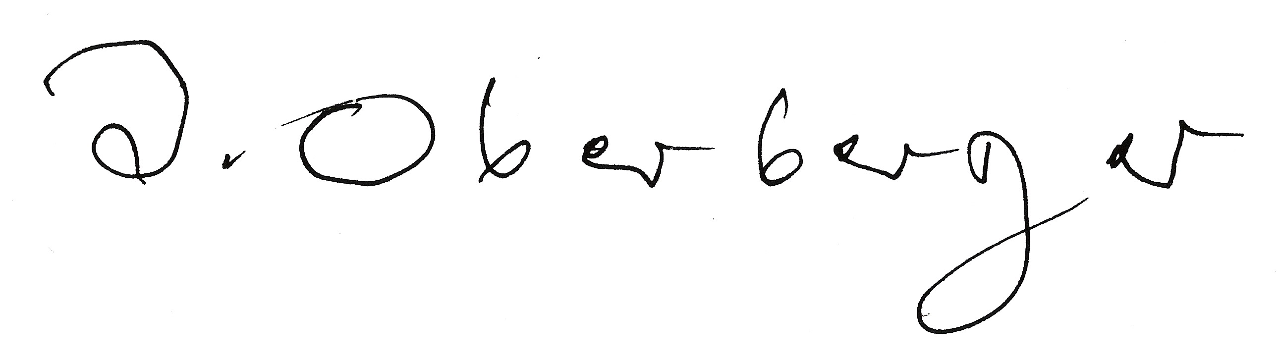 Signature of the artist Josef Oberberger in one of his letters to his friend Hans Bernhard